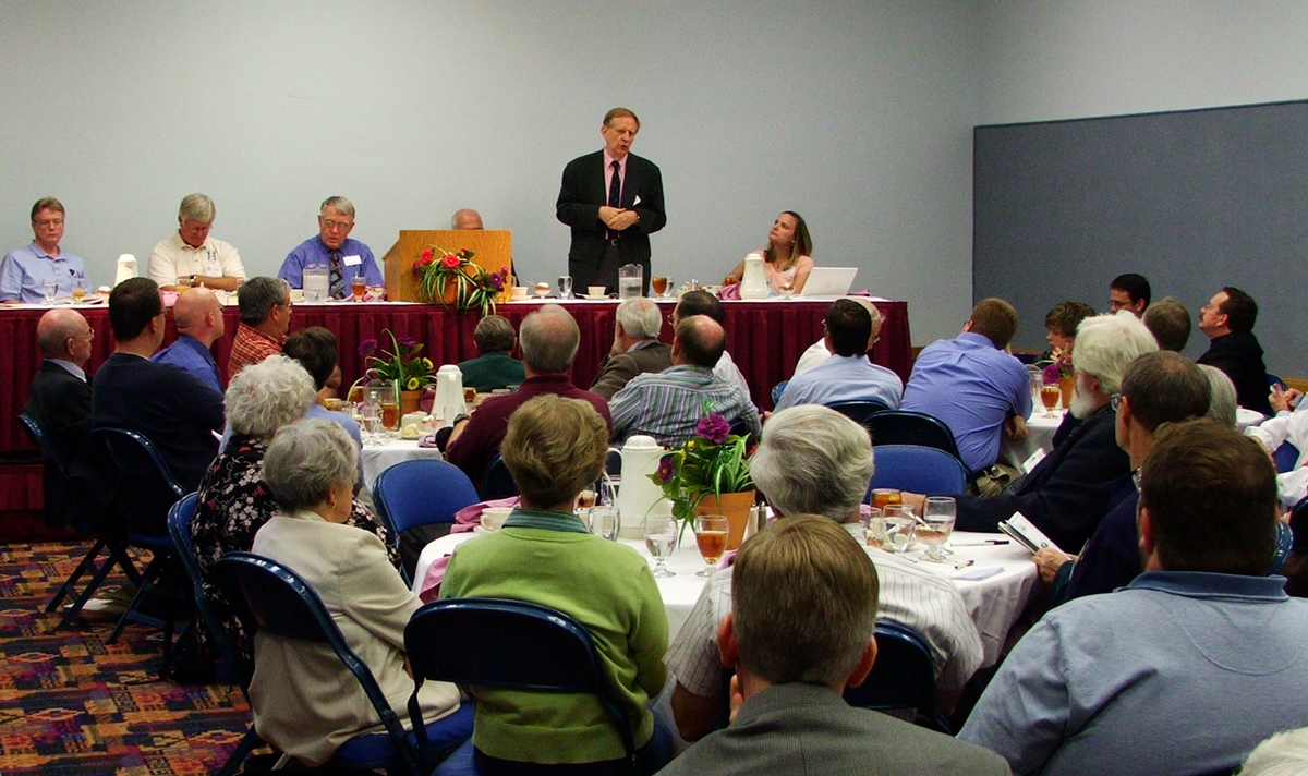 Richard Bushman addresses JWHA.